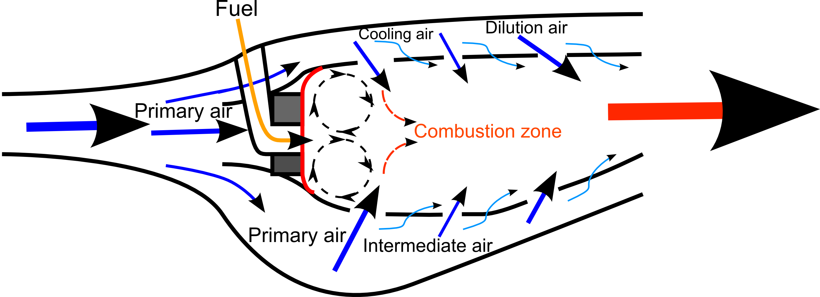 Diagram of air flow paths in a gas turbine combustor.